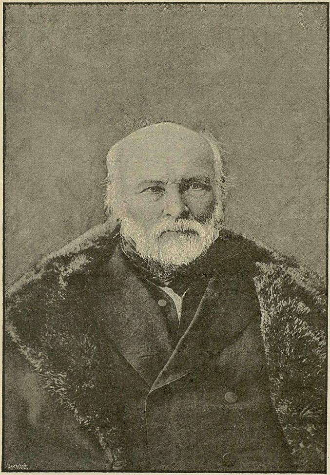 Nikolay Ivanovich Pirogov